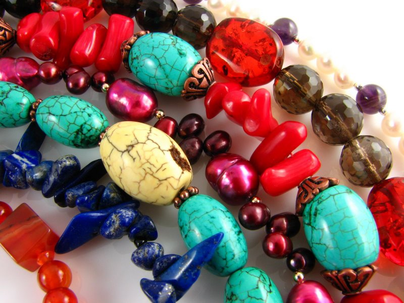 Gemstone Necklaces